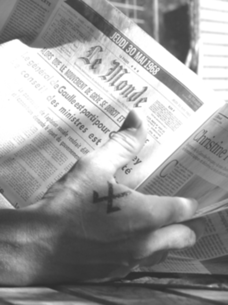 Photo of man from 1968